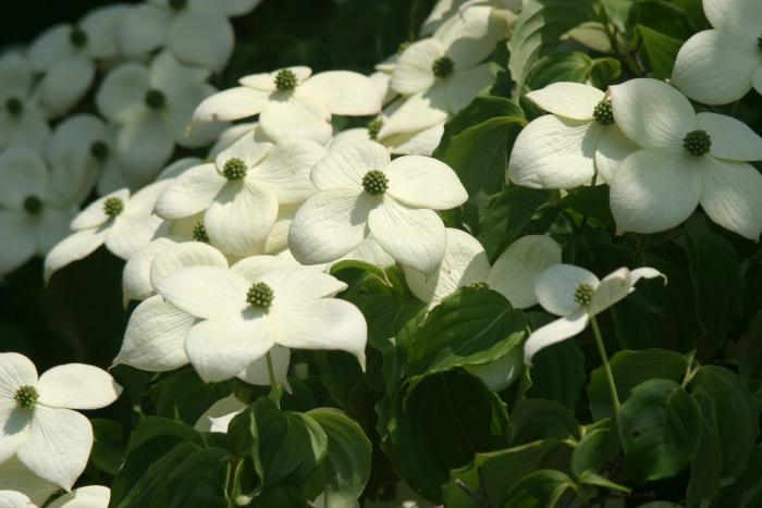 Cornus Kousa flowers. Photo taken by me, May 22, 2004 at Longwood Gardens. Henryhartley 01:23, Apr 15, 2005 (UTC)